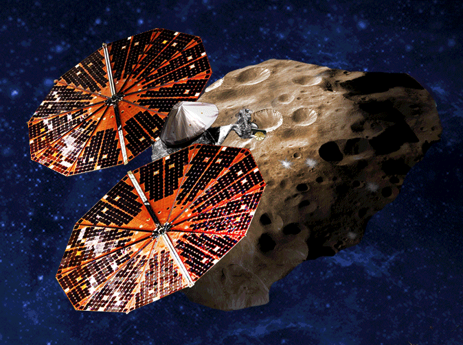 An artist’s conception of the Lucy spacecraft flying by the Trojan Eurybates – one of the six diverse and scientifically important Trojans to be studied. Trojans are fossils of planet formation and so will supply important clues to the earliest history of the solar system.